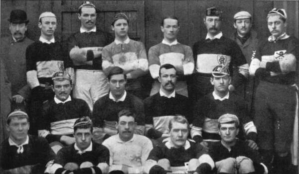 Early members of the Barbarian Football Club. Not the originals, but the second season. The players: (back row): W. Sugden, A. Rotherham, P.H. Hancock, C.A. Hooper, C.M. Wells, W.H. Manfield, P. Maud, R. Budworth; (middle row): D.W. Evans, F.H.R. Alderson, W.P. Carpmael, S.M.J. Woods; (front row): A. Allport, F.T. Aston, T.A.F. Crow, T. Parker, T.W.P. Storey.